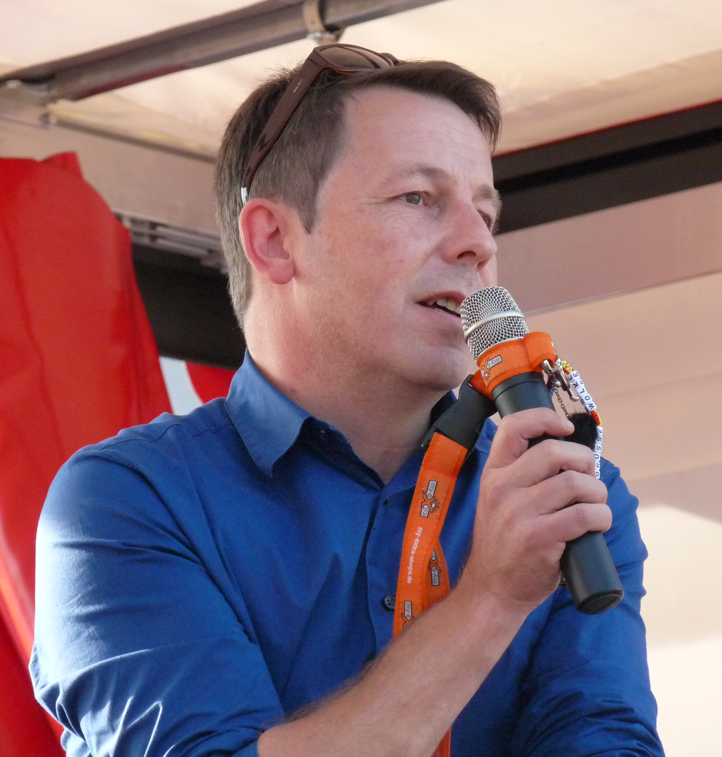 More than 2.000 people rallying for a Basic Income on the BGE-Demonstration on September 14, 2013 in Berlin